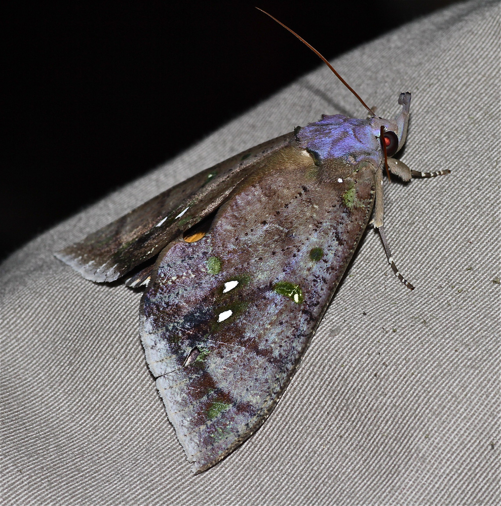 Eudocima discrepans (Borneo)